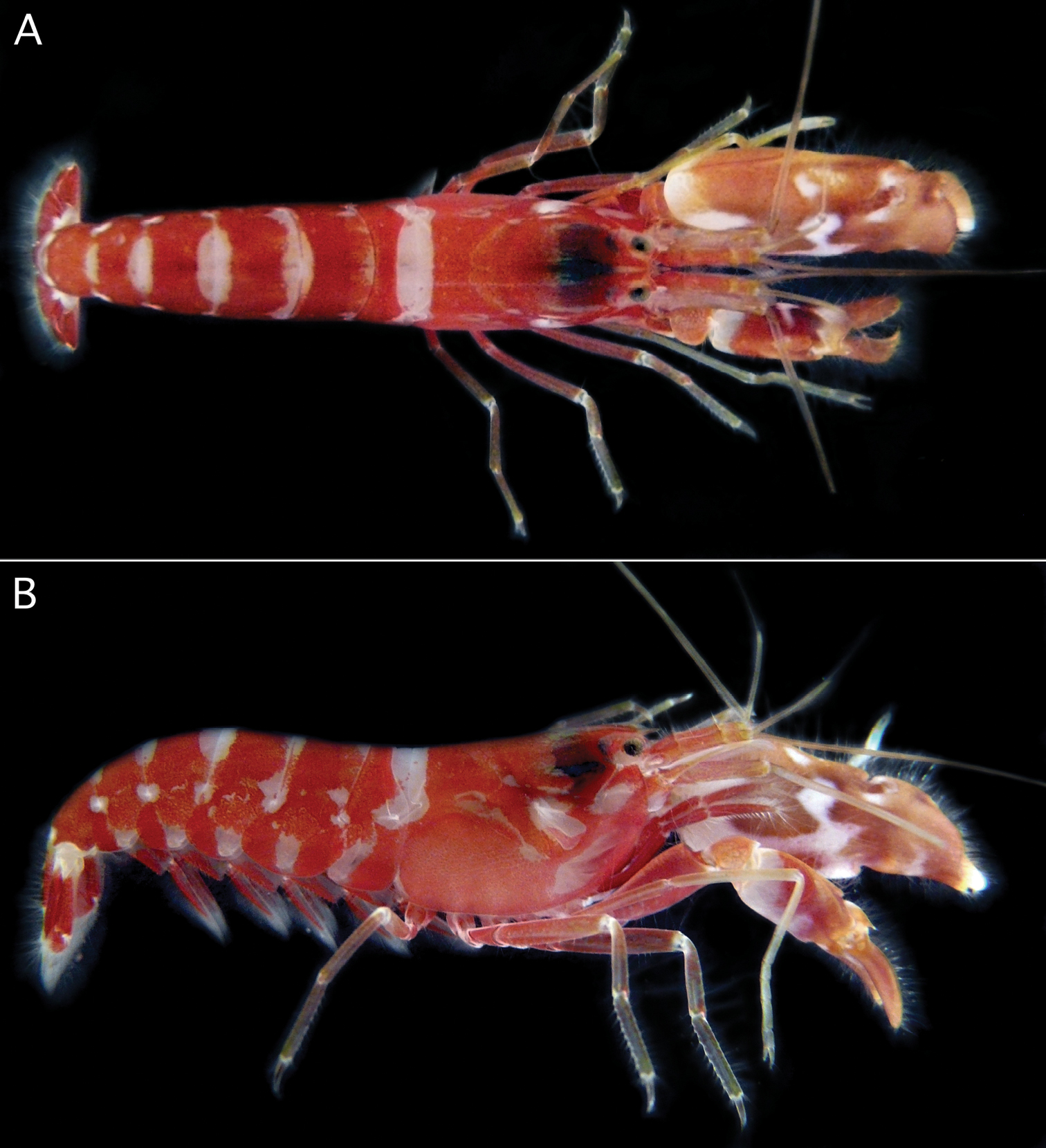 Alpheus cedrici holotype, male from Ascension Island (OUMNH.ZC. 2008-11-0017). A dorsal view B lateral view (photographs by S. De Grave).